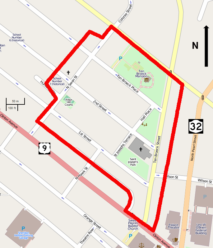 Map of the Ten Broeck Triangle–Arbor Hill Historic District, Albany, NY, USA This map may be incomplete, and may contain errors. Don't rely solely on it for navigation.